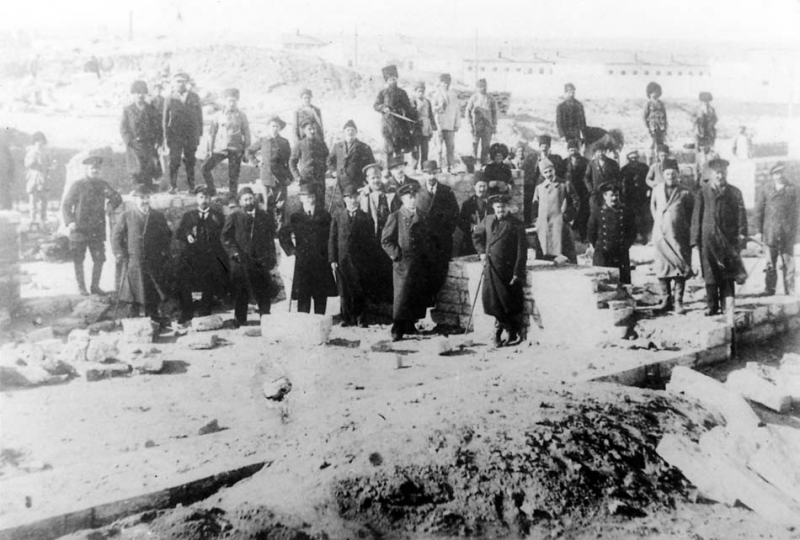 Musa Naghiyev with oil workers.